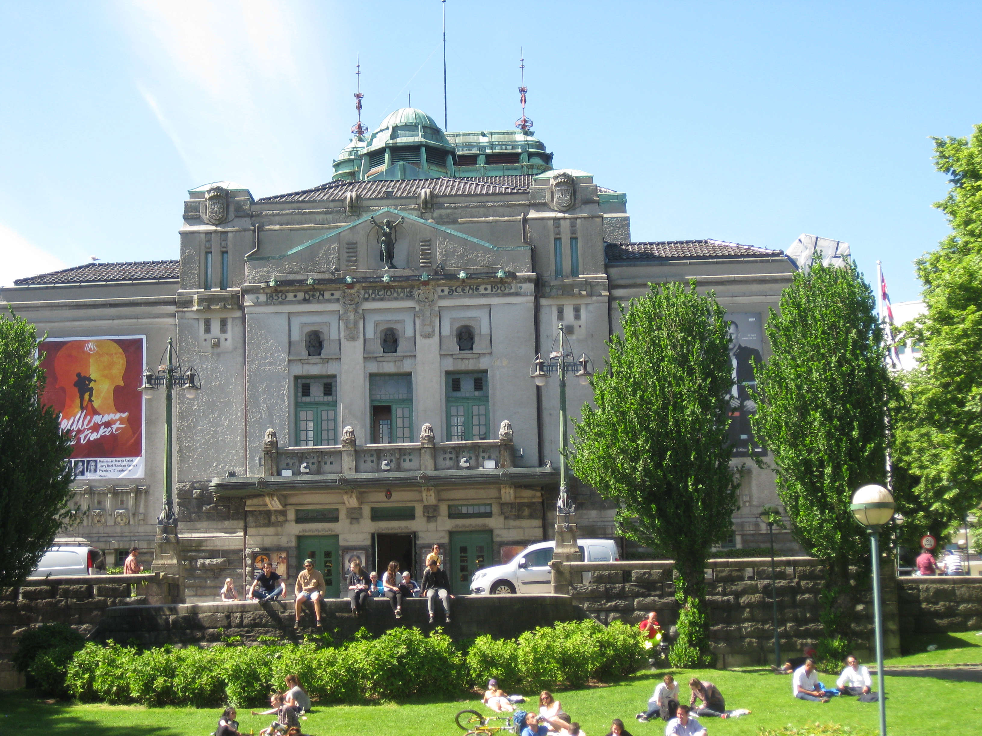 National theatre in Bergen (Norway)